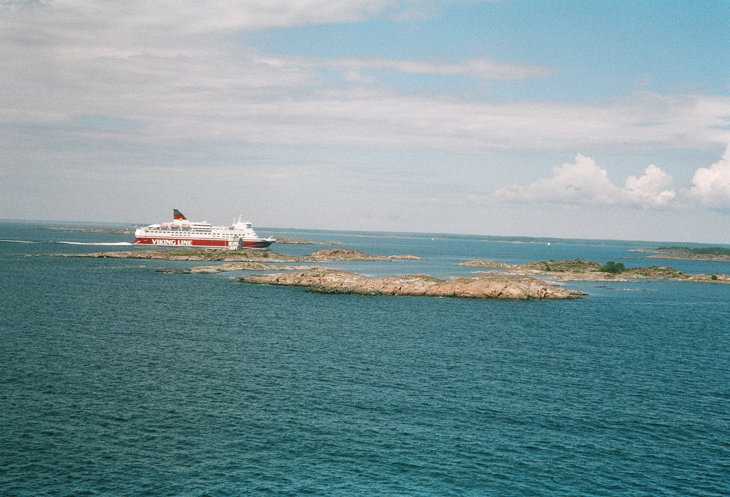 Group of skerries in the Archipelago Sea, Municipality of Lemland, Åland territory, Finland. The Viking Line ship is coming from Stockholm and heading towards Mariehamn, about 10 km away